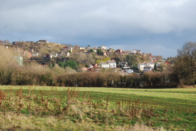 Houses at Cefn mawr